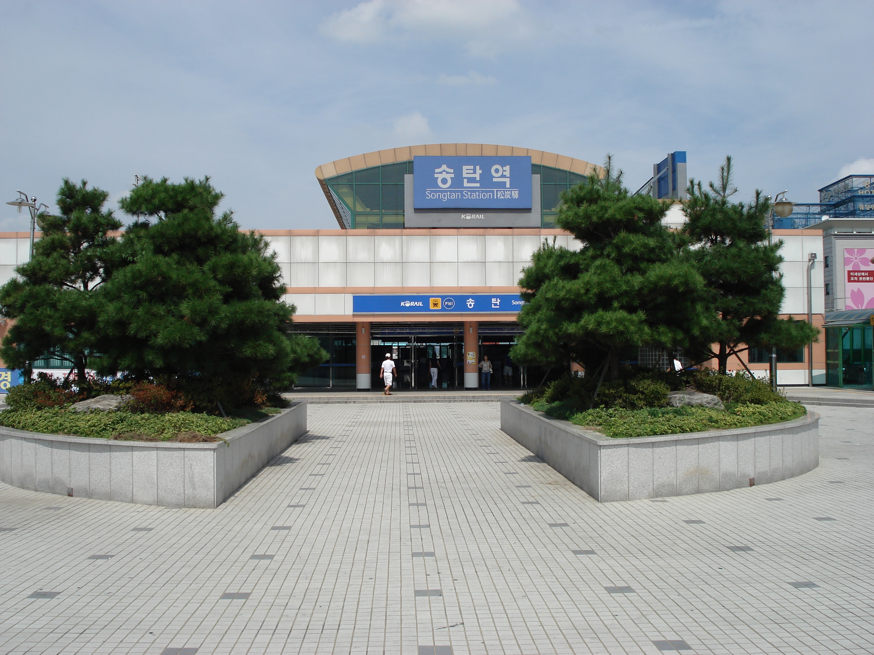 This is the view of the Songtan Train Station from the street.